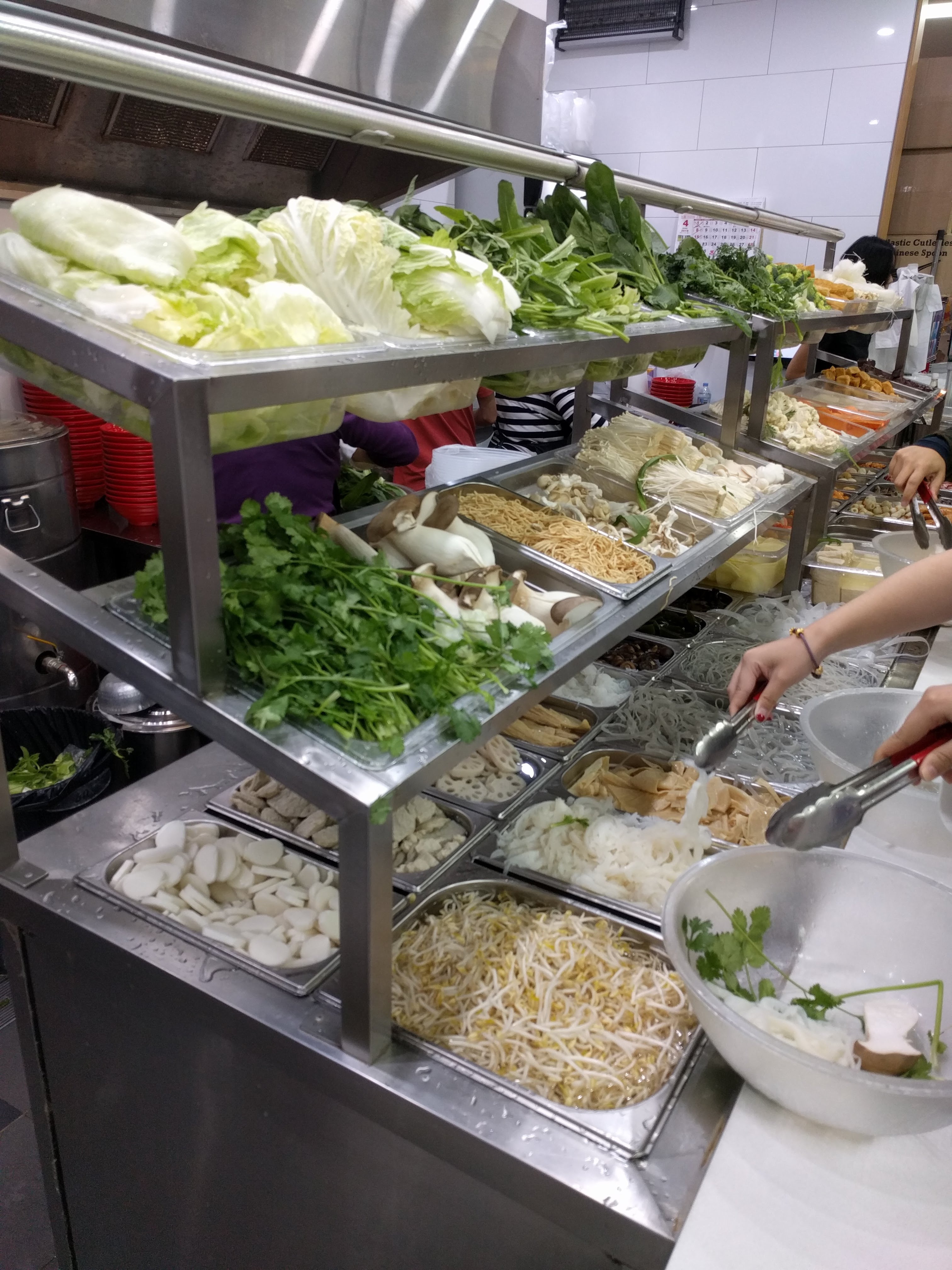 The selection of ingredients at Yang Guo Fu Ma La Tang (杨国福麻辣烫), Burwood, Sydney, Australia.